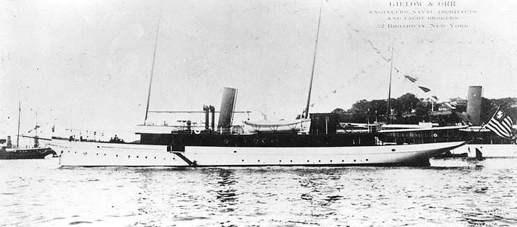 Steam yacht Zara before World War I and prior to her U.S. Navy service as USS Zara (SP-133).